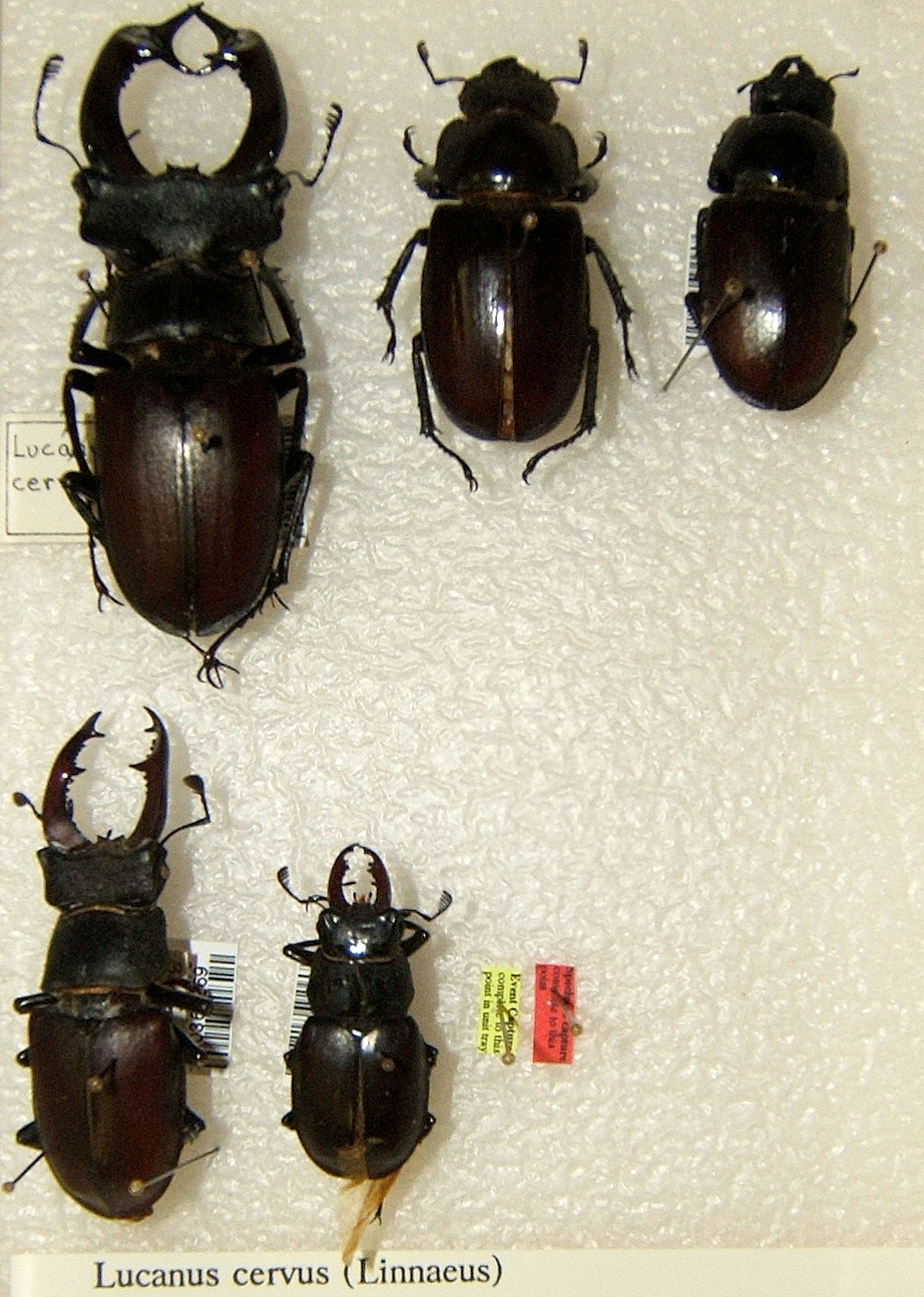 Lucanus cervus adult variation taken by Shawn Hanrahan at the Texas A&M University Insect Collection in College Station, Texas.